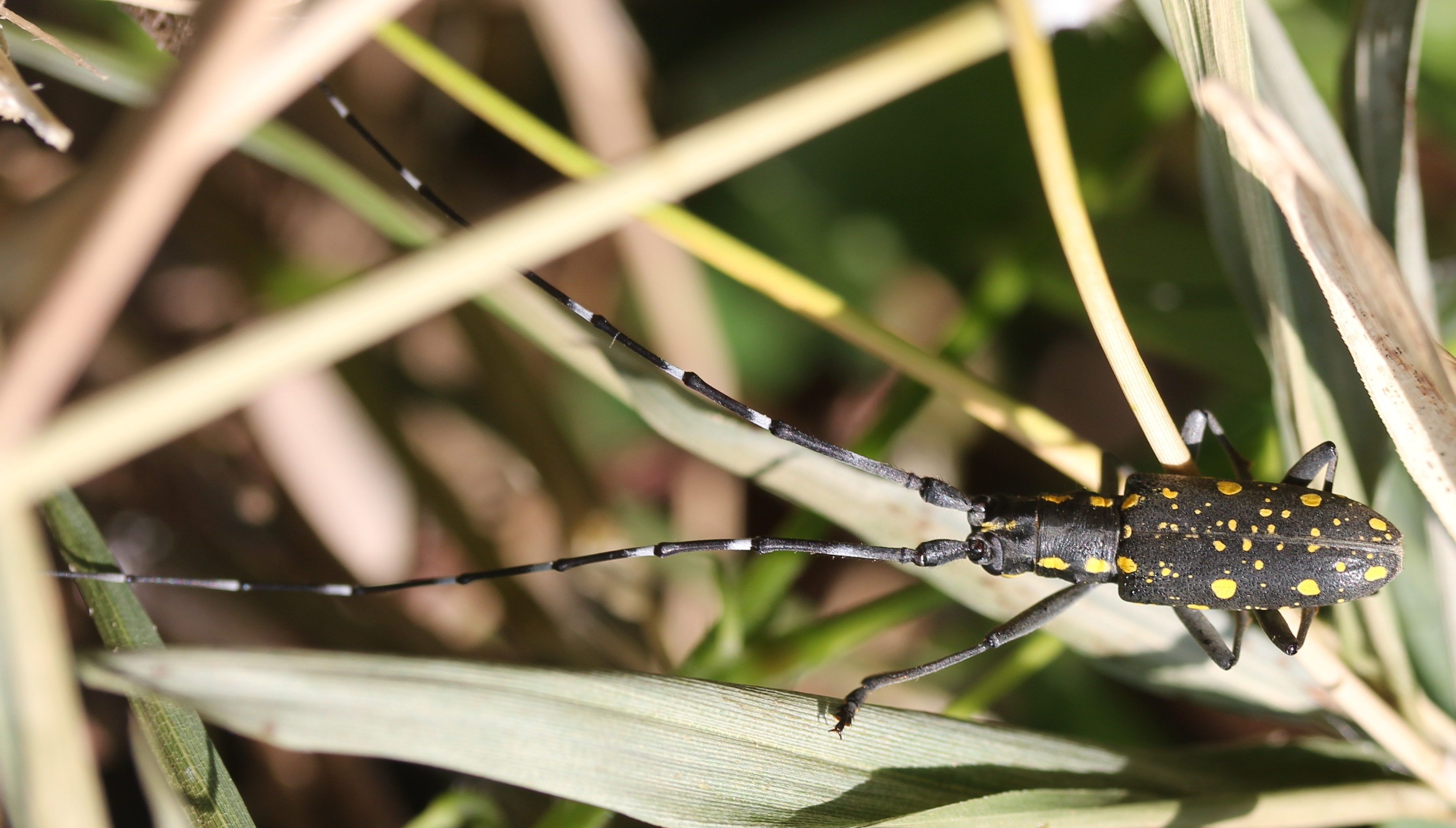 Psacothea hilaris, in Mount Ibuki, Maibara, Shiga prefecture, Japan.